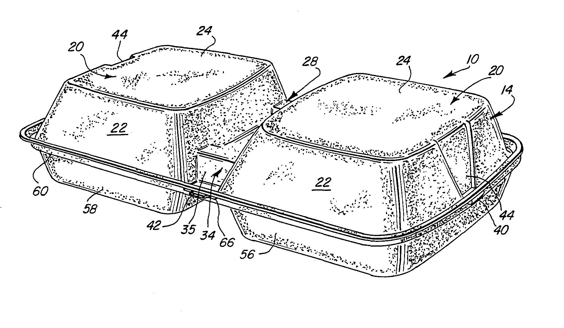 From US patent 4653685. "Patents issued in the United States are public domain government information" [1]